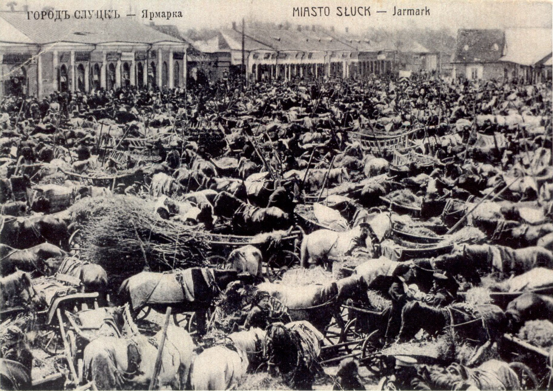 Trade fair in Slutsk (before 1900).